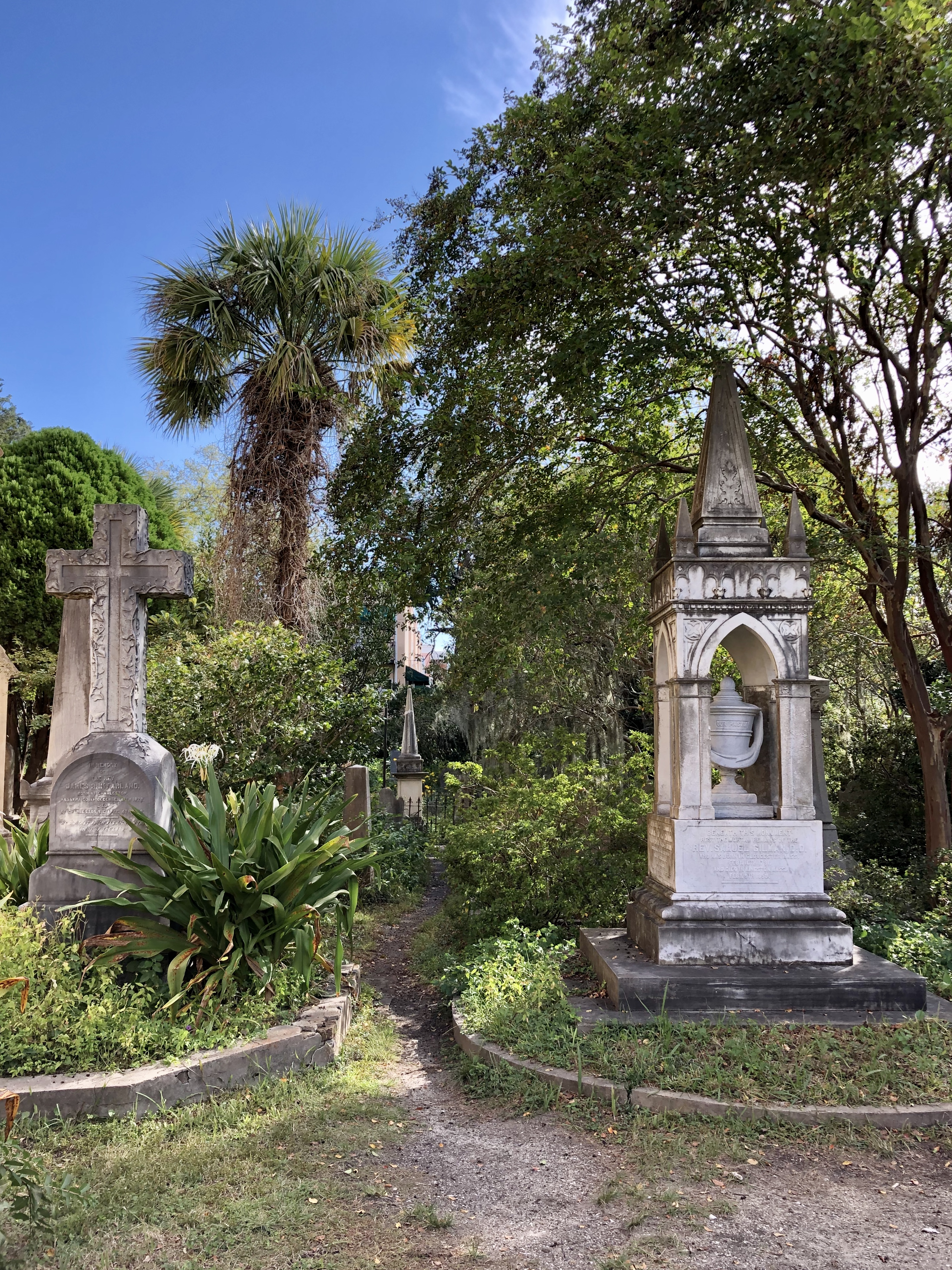 Graveyard, Unitarian Church in Charleston, Harleston Village, Charleston, SC